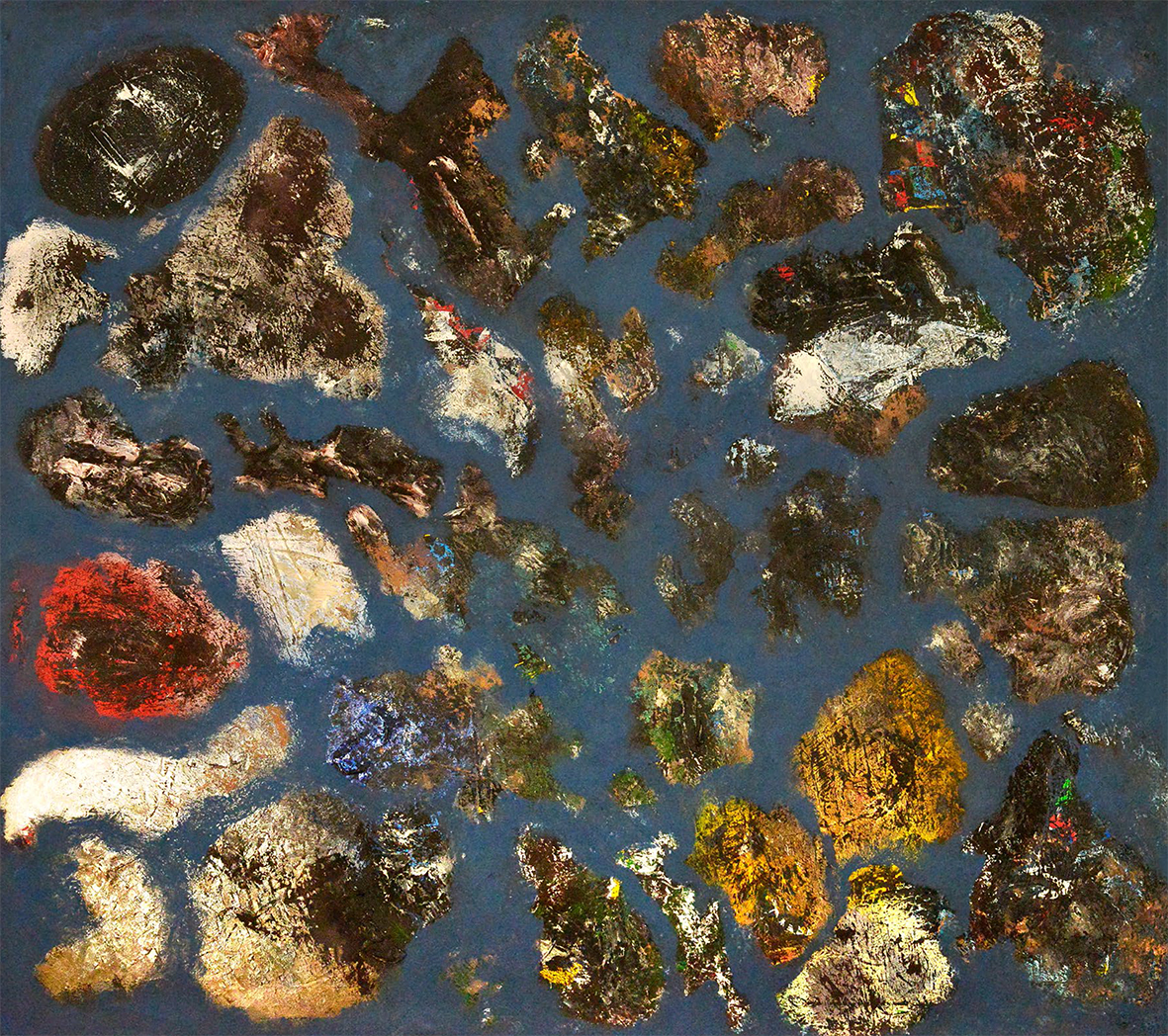 Mixed Media - 160 x 180 cm